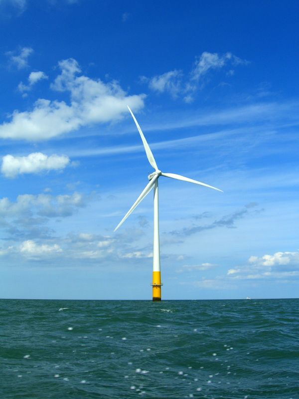 Vestas V90-3MW wind turbine of the Kentish Flats Offshore Wind Farm, Thames Estuary.